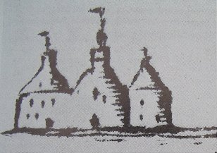 Drawing of the Onstaborg in Sauwerd with exact date unknown.